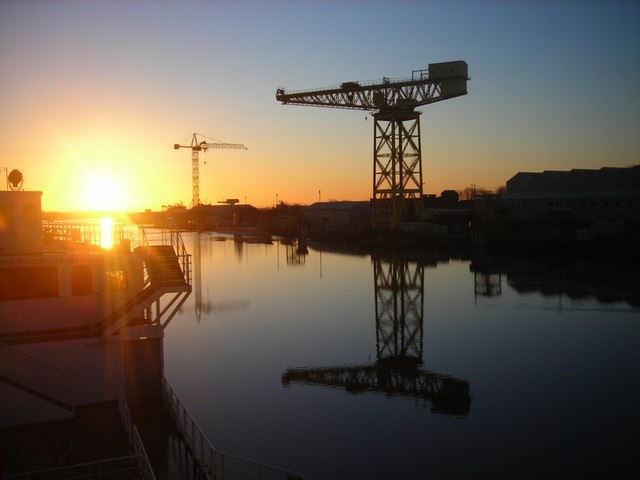 Buccleuch Dock: Sunrise, near to Barrow-in-Furness, Cumbria, Great Britain. A dramatic view to the south east as the sun rises on a bright winter day